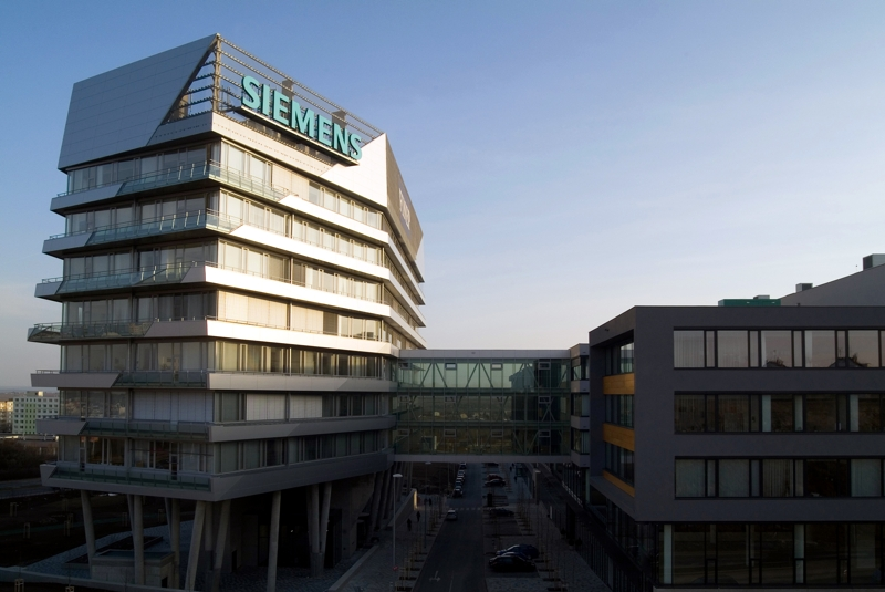 City West Siemens